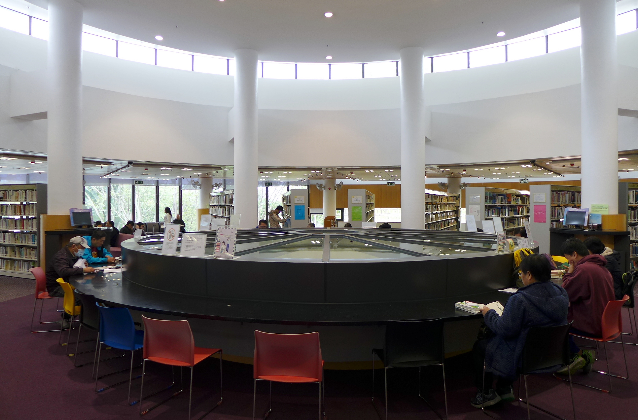 Ma On Shan Public Library